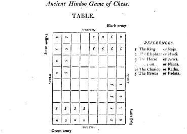 Hiram Cox's illustration of the "ancient Hindoo" form of chess with four players